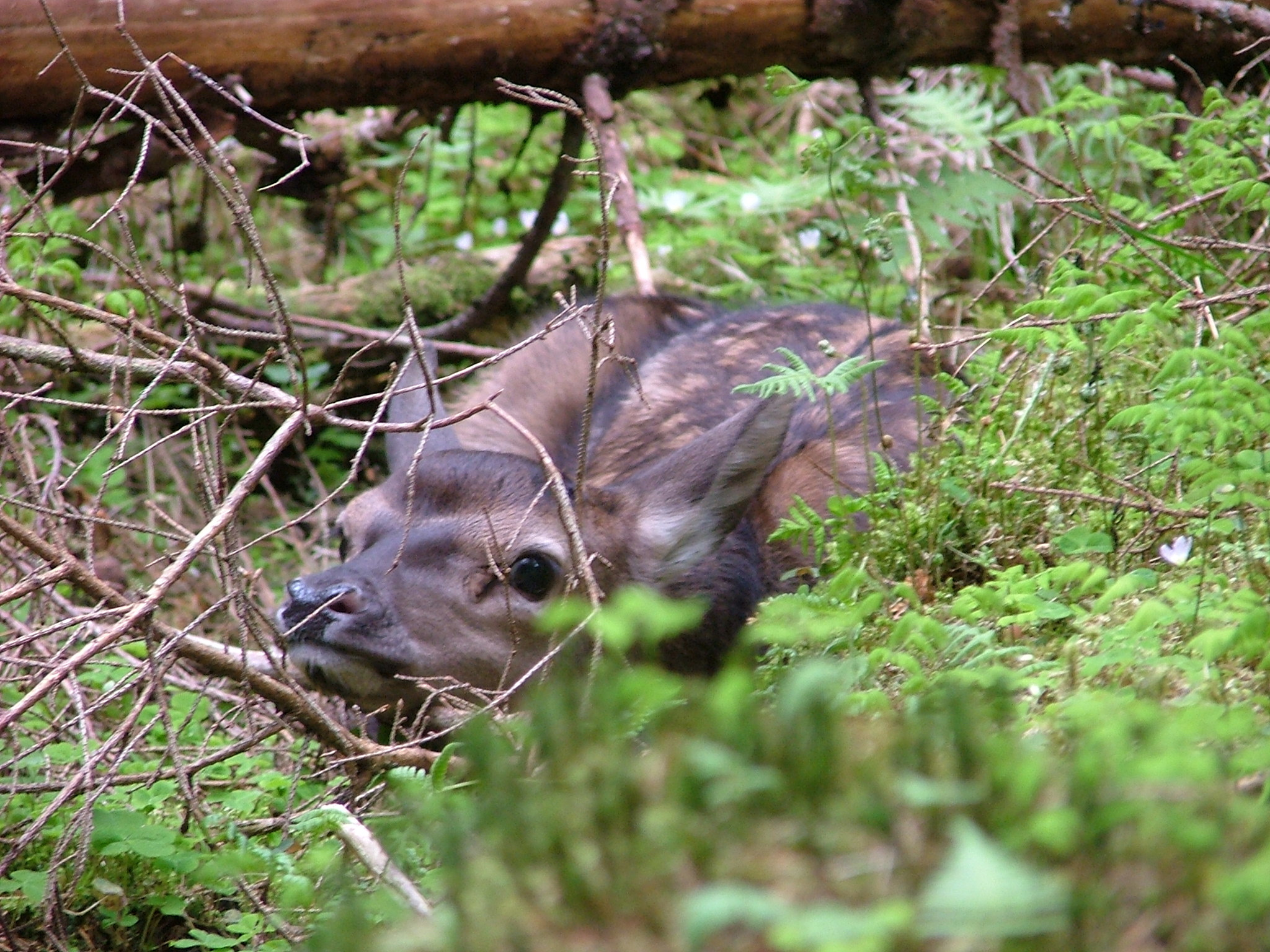 Fawn